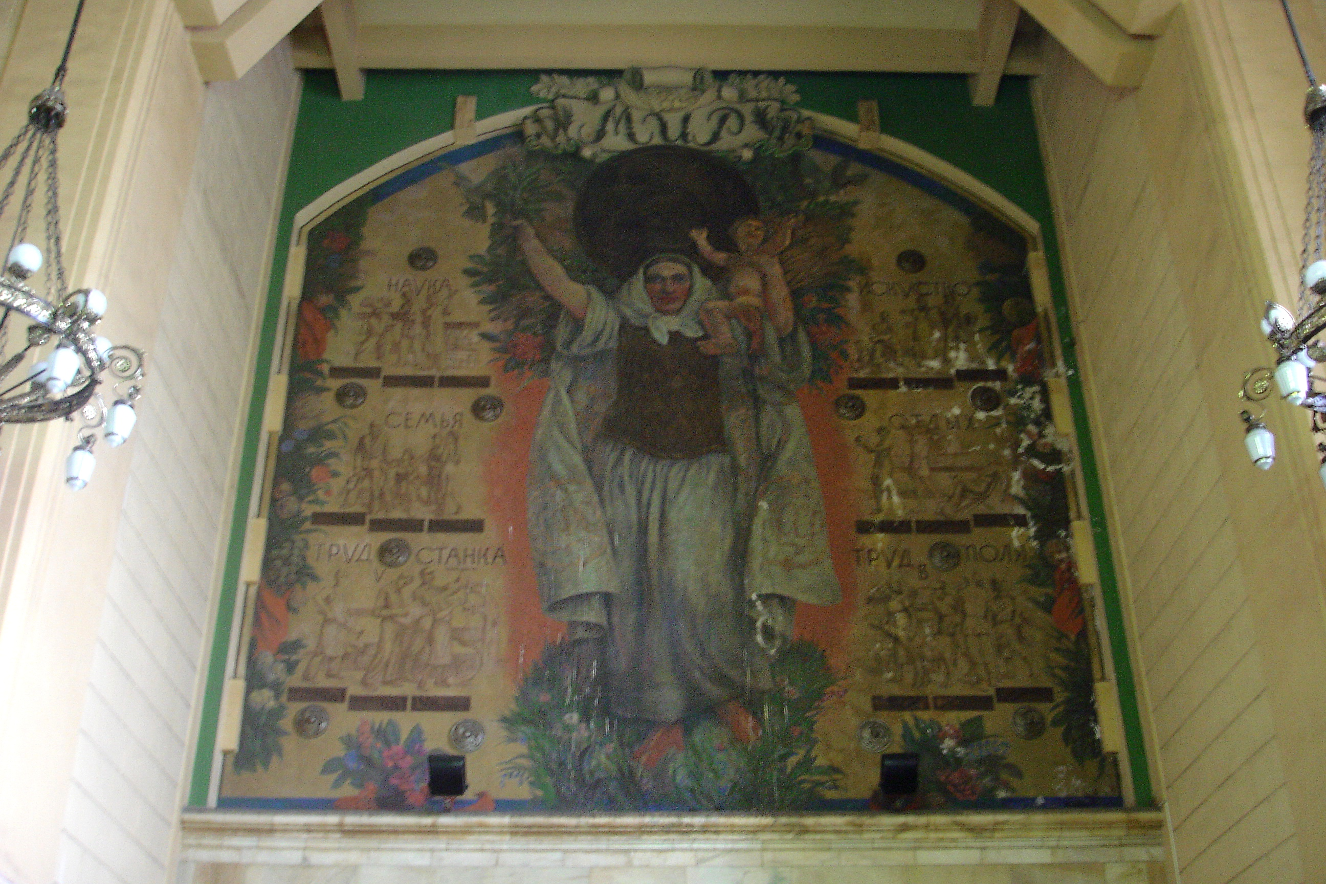 Kazansky rail terminal, Moscow. Detail of design of the main entrance right dome wall